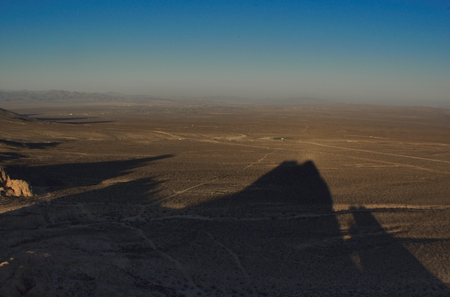 View from atop Robber's Roost overlooking the area where Freeman Junction once stood. The town of Ridgecrest, California is visible in the background.